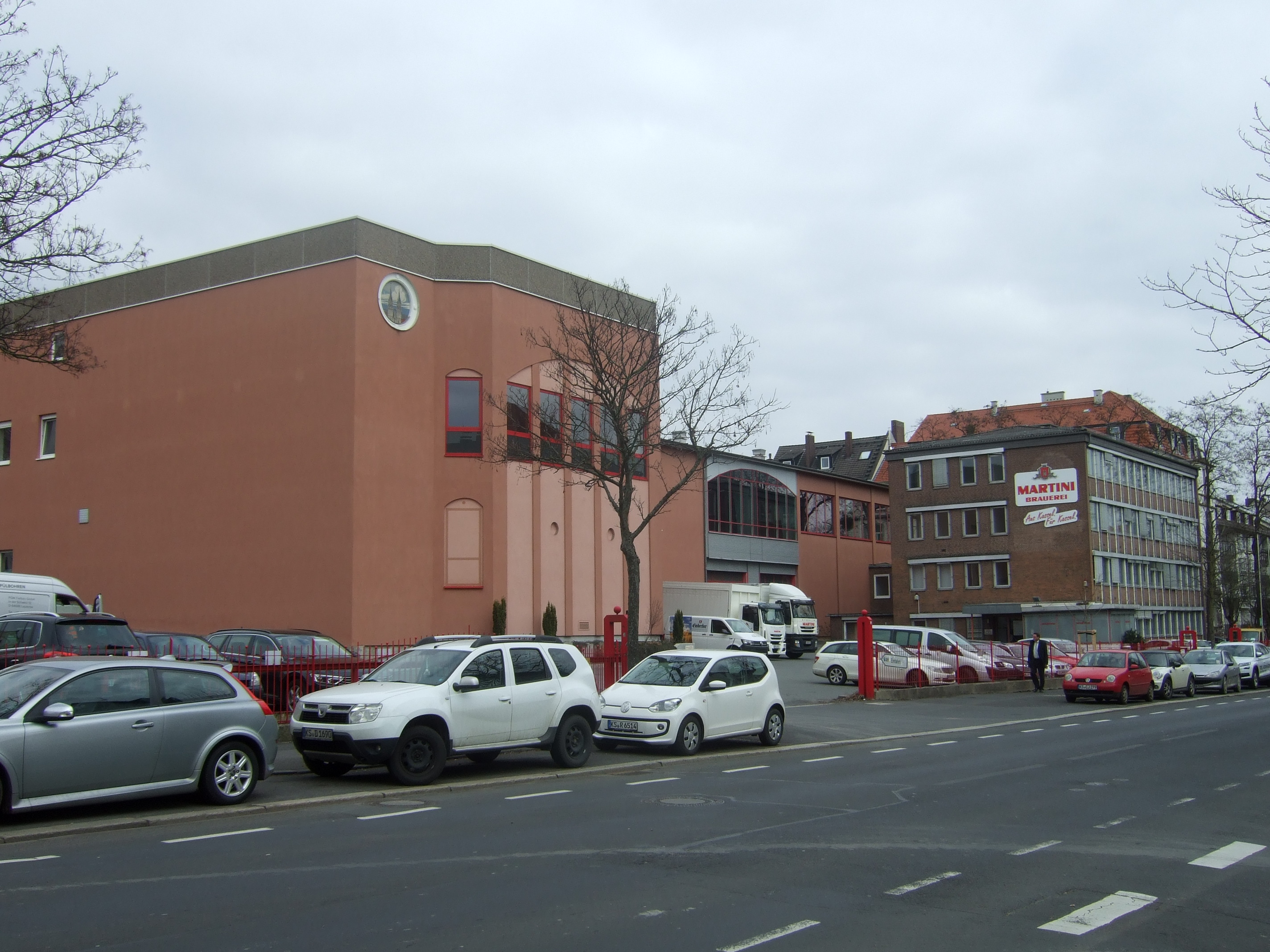 Martini brewery, Kassel